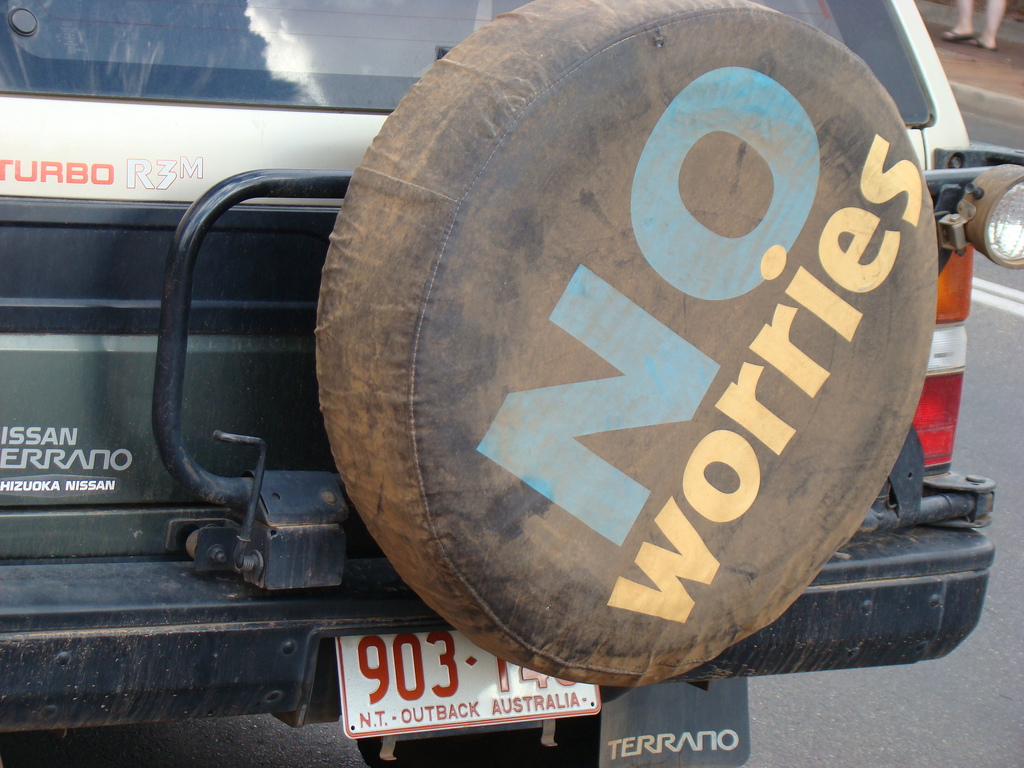 "No worries" text, on the cover of a spare tire on the back of an automobile in Australia